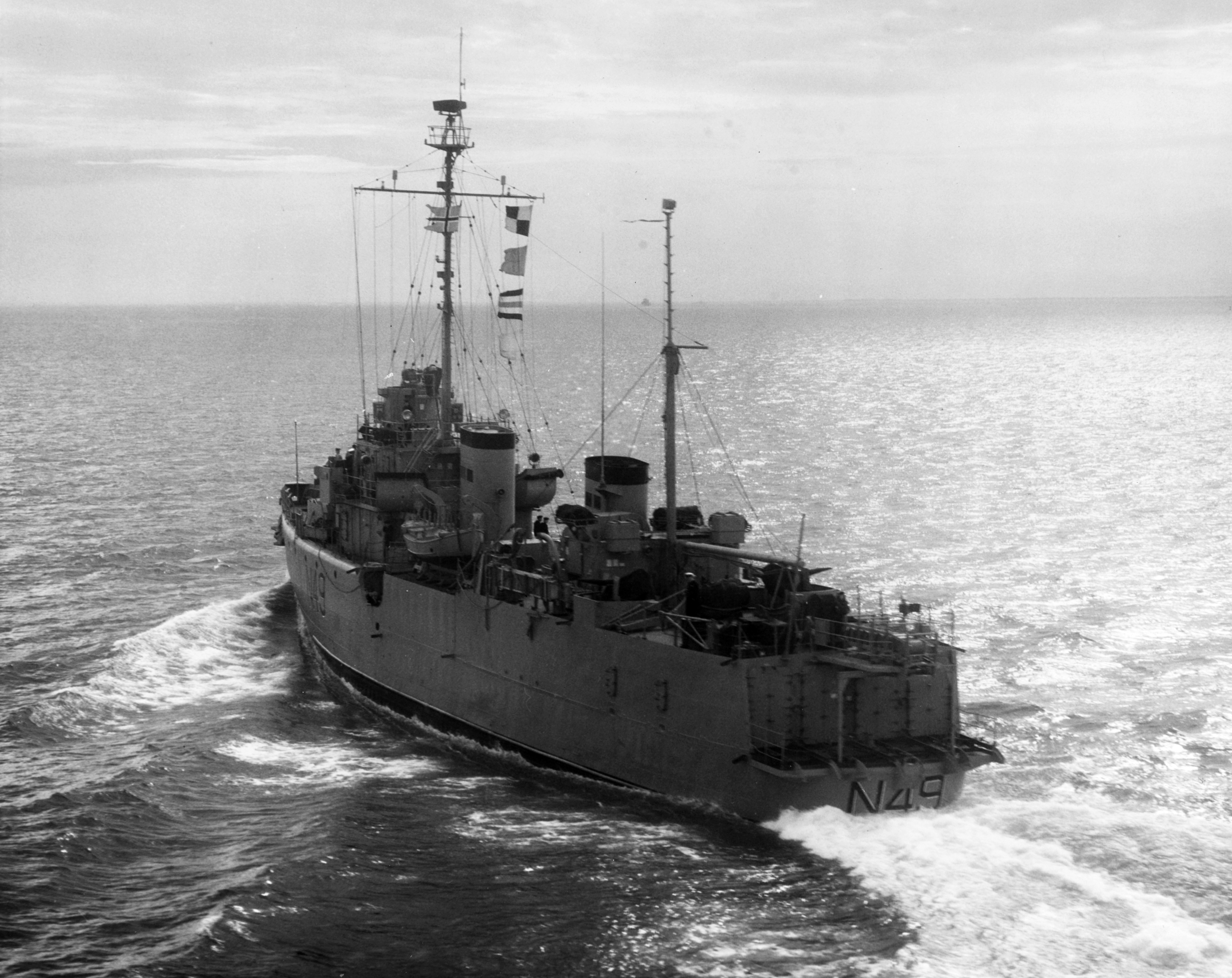 Seen as Brage (N 49) underway, 6 March 1961 soon after her transfer to Norway. U.S. Navy photo NH 96869